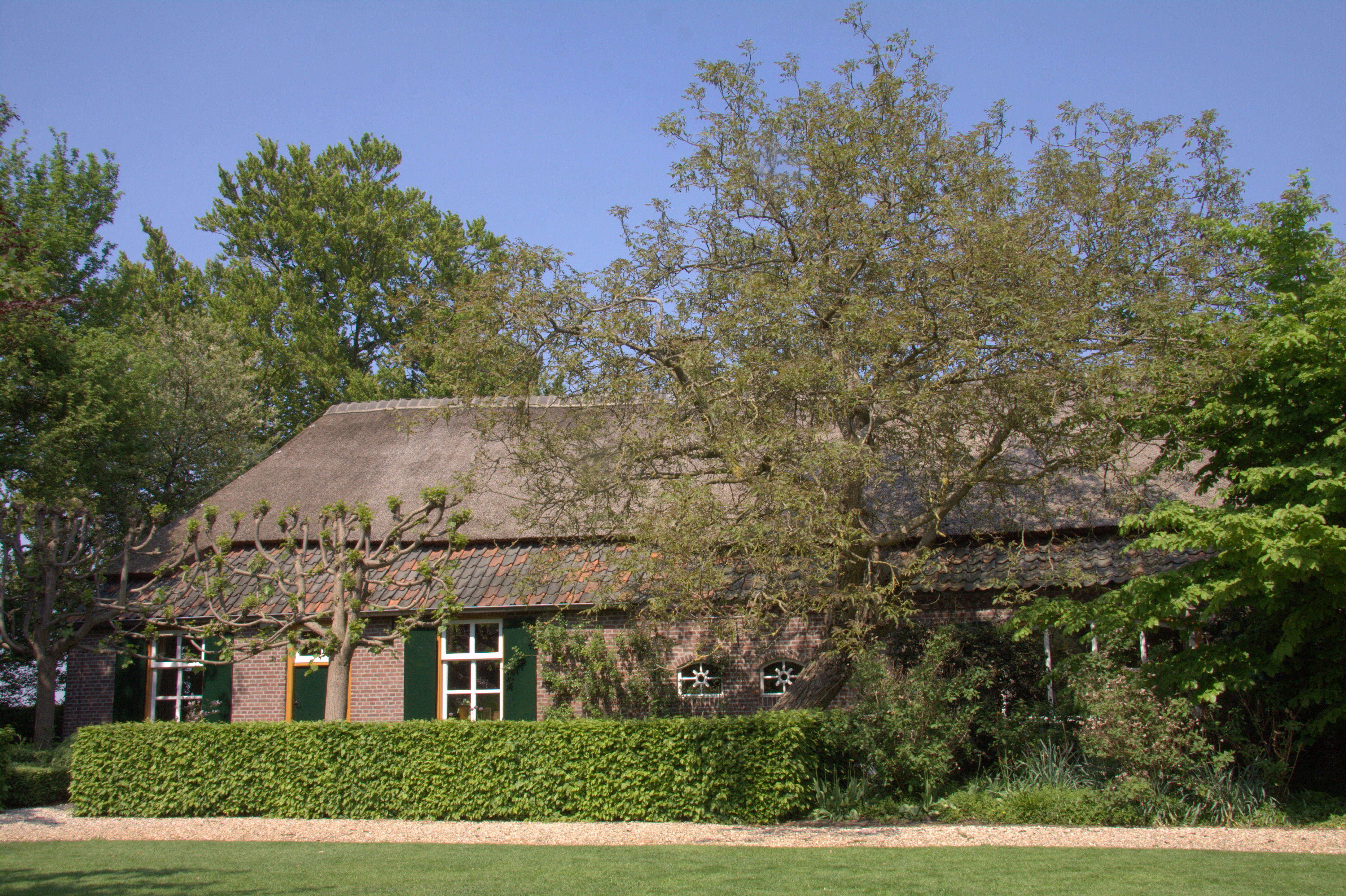 An old farmhouse, dated 1750, at Lieshout, the Netherlands